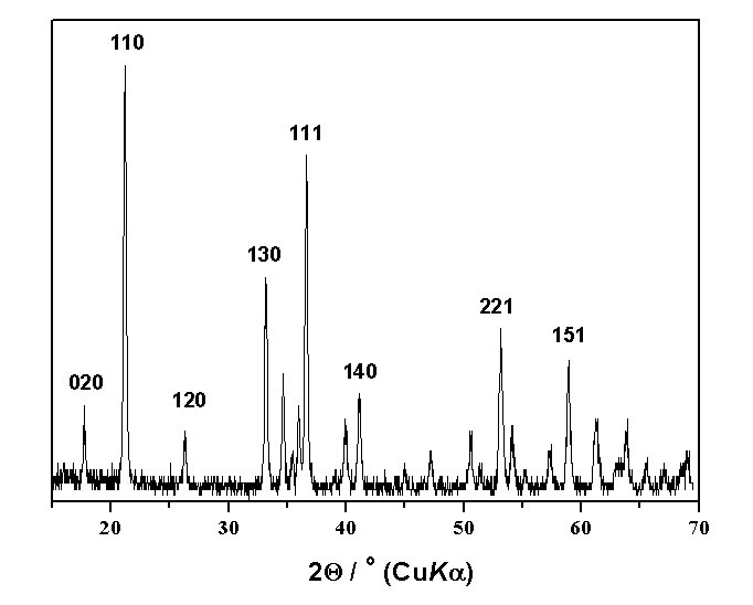 XRD powder pattern of goethite